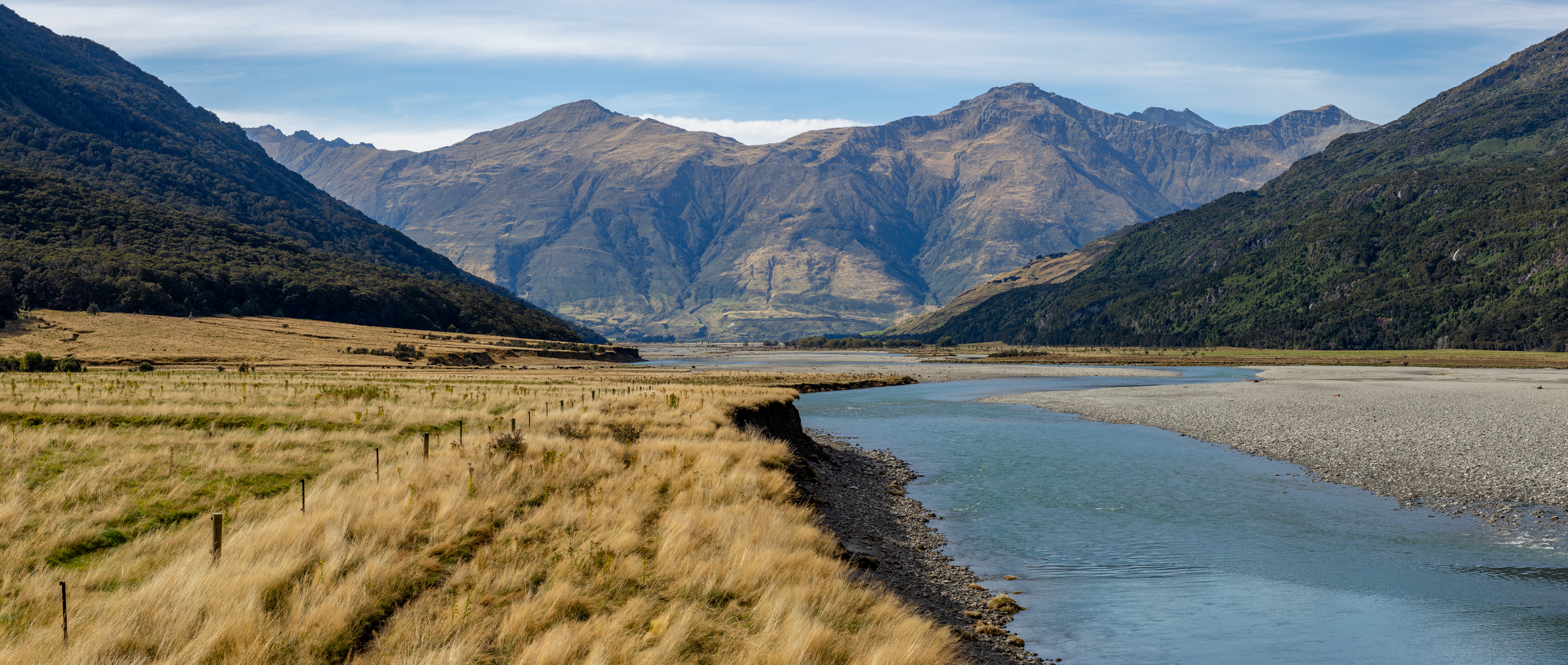 Wilkin River close to its confluence with Makarora River, Otago, New Zealand.